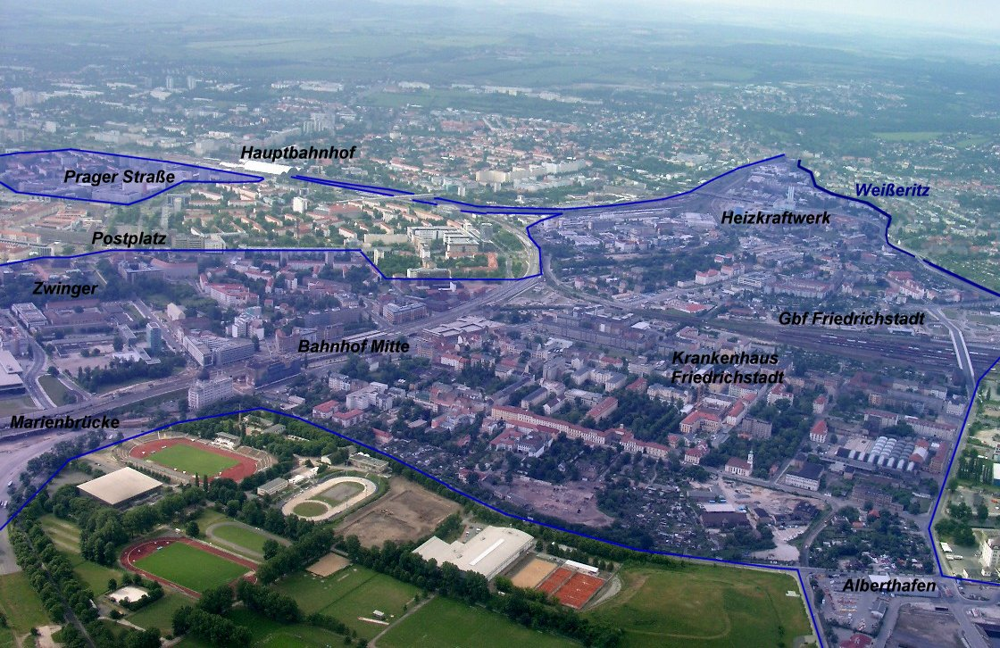 Areas flooded by the rivers Weißeritz in an aerial view of Dresden (Notice: Please use official documents and maps to get detailed information! Borders of the flooded areas are simplified.)See also: Image:Dresden Ueberschwemmungsgebiet NebenGewaesser.png